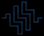 Generator for 50 Segment Fractal.